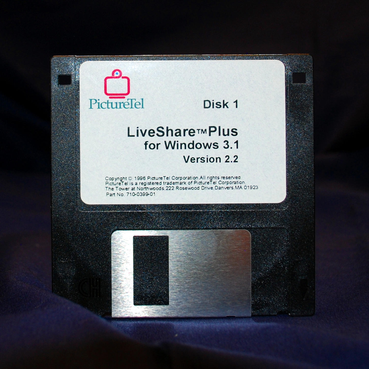 PictureTel Corporation ~ LiveShare Plus Software date code 1996